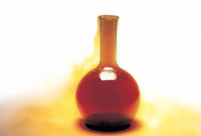 bromine